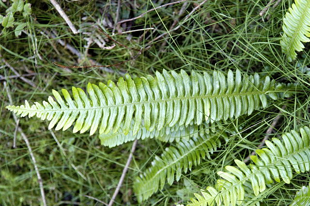 Picture taken in Commanster, Belgian High Ardennes . Species: Blechnum spicant